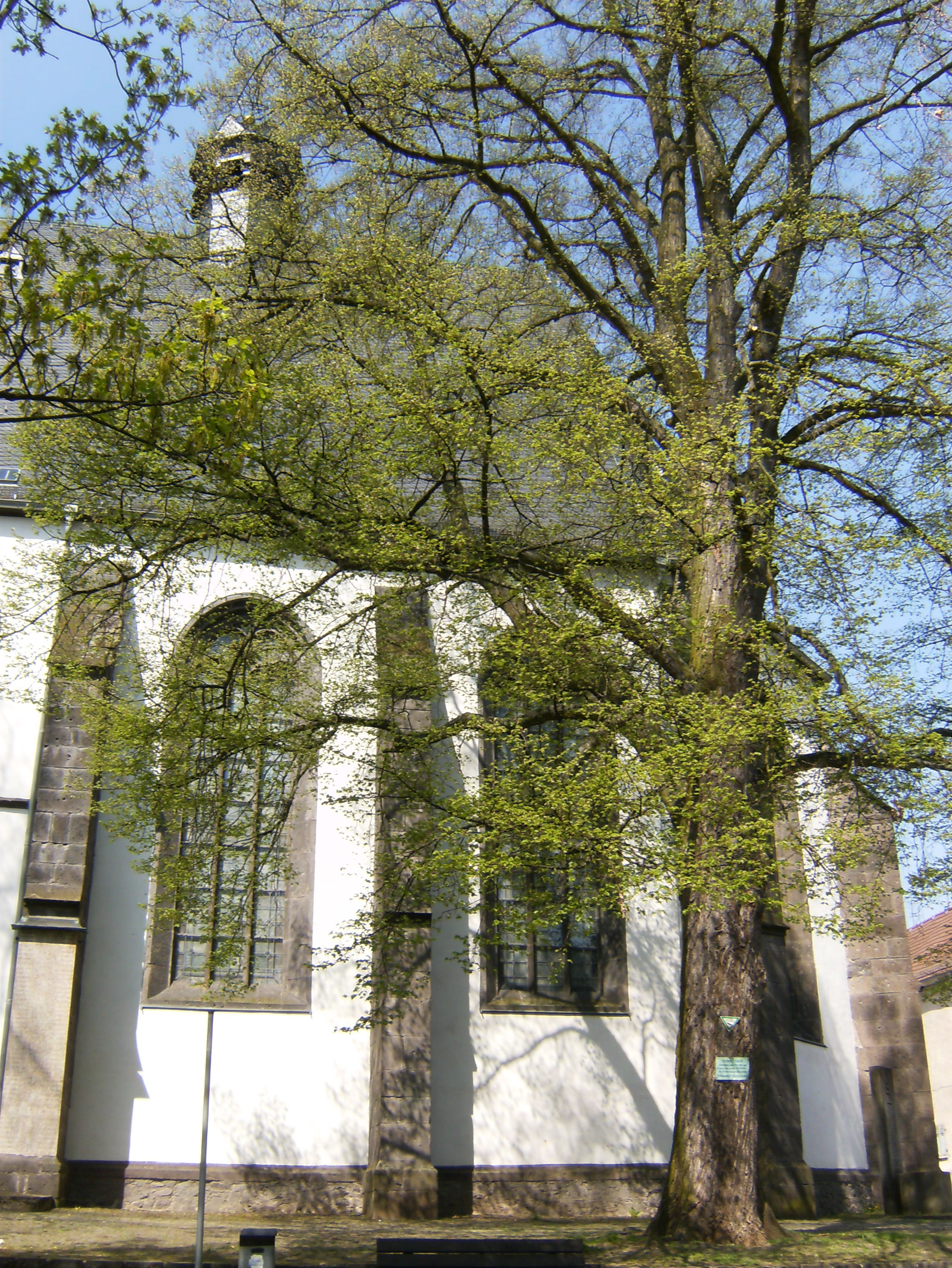 Marienstiftskirche in Lich (Hessen).